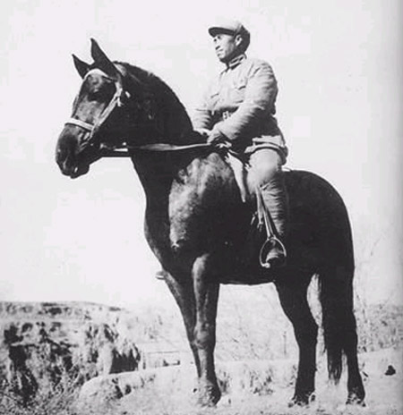 Chinese communist Red Army leader Zhu De on horse back.